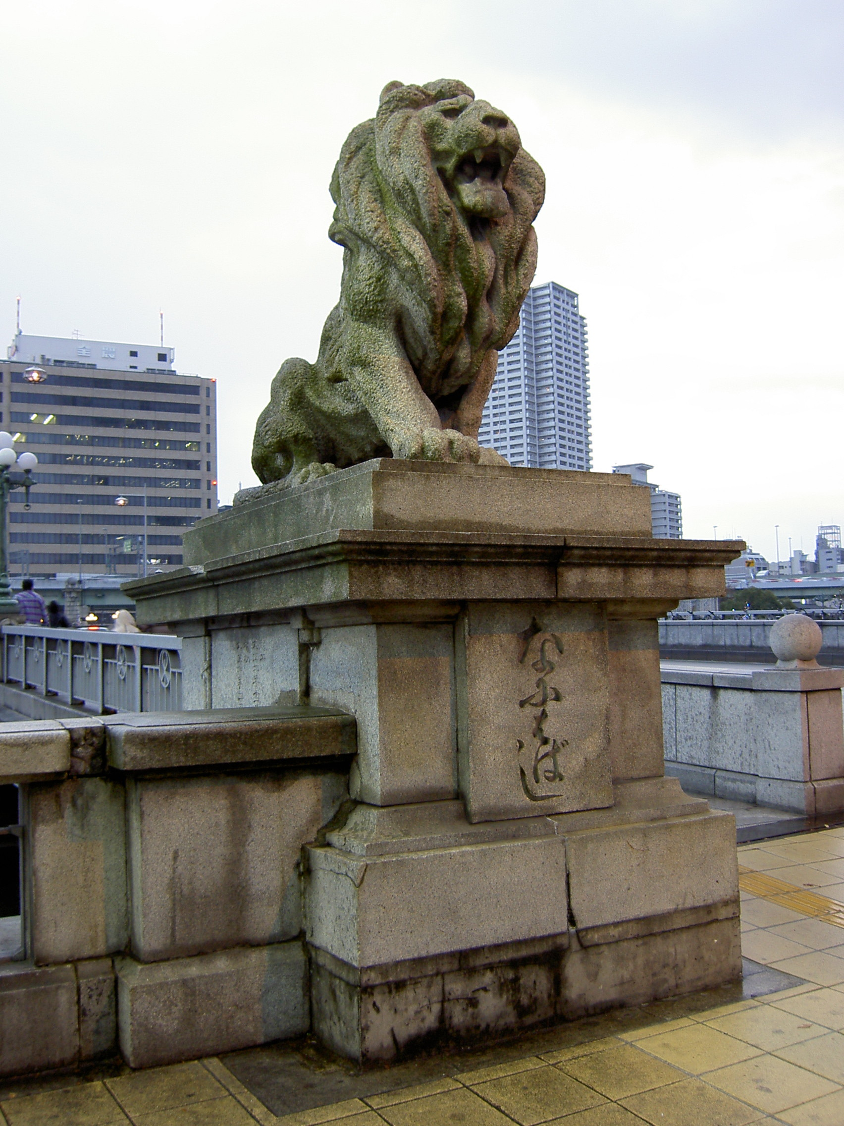 A lion stone statue (Agyo) of a Naniwa Bridge handrail. Chuo-ku, Osaka-shi, Osaka, Japan.